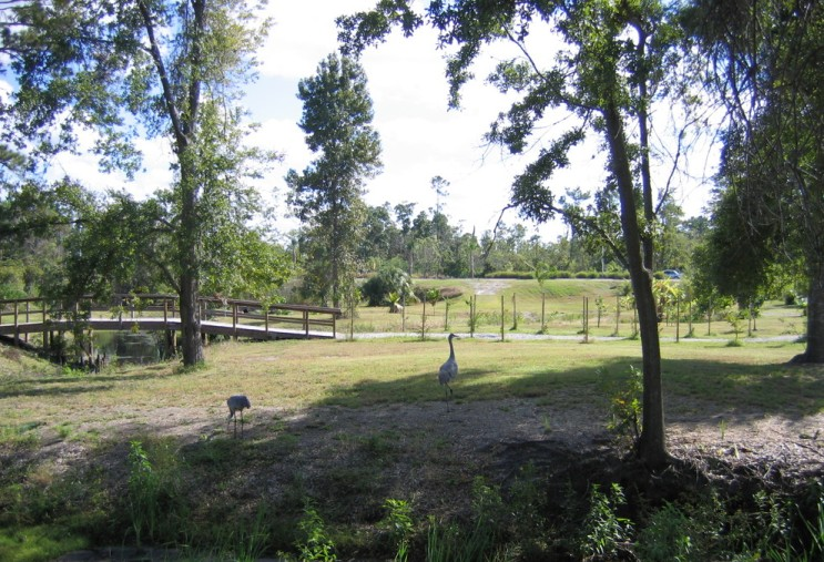 Arboretum of the University of Central Florida